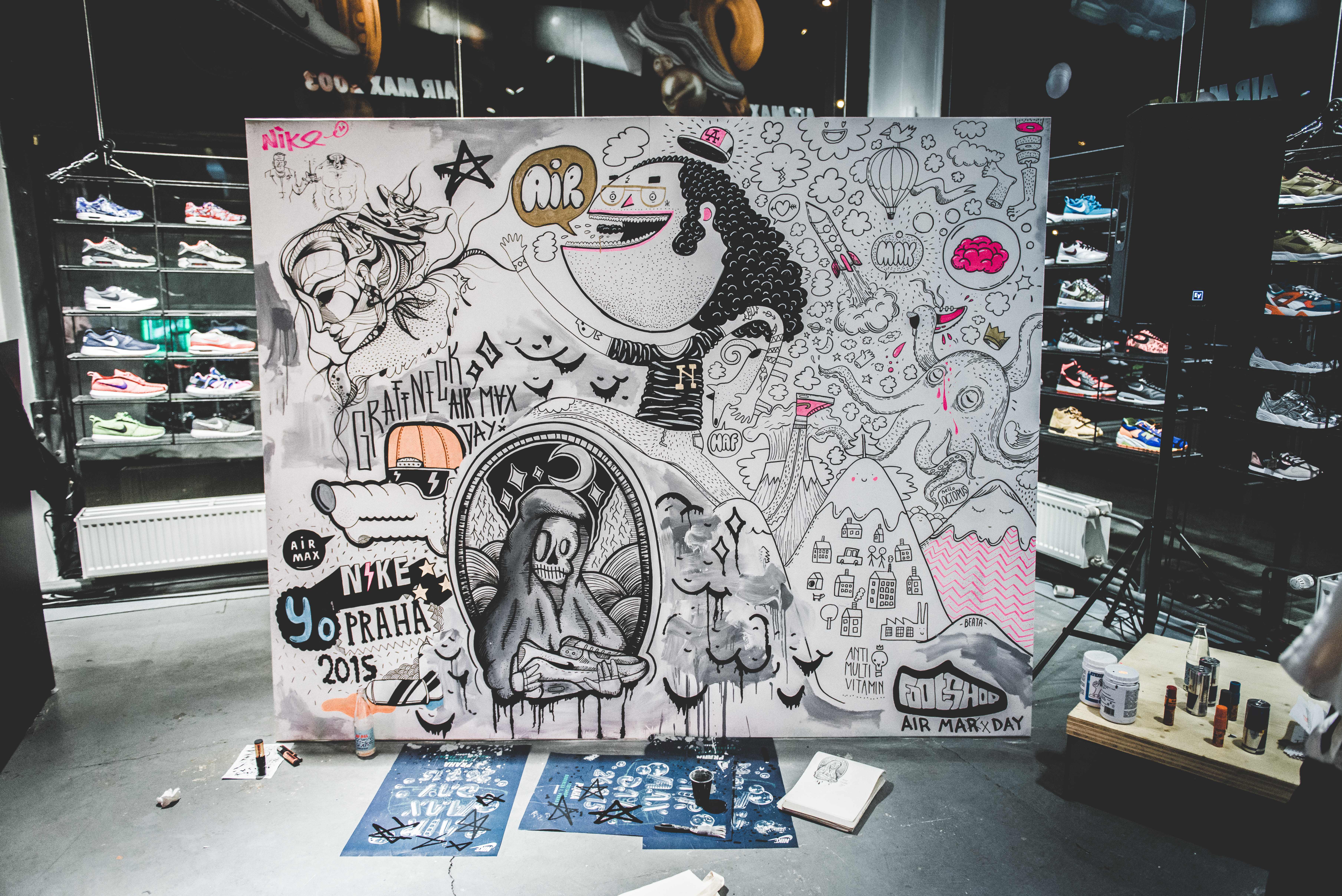 Location: Prague / CZ